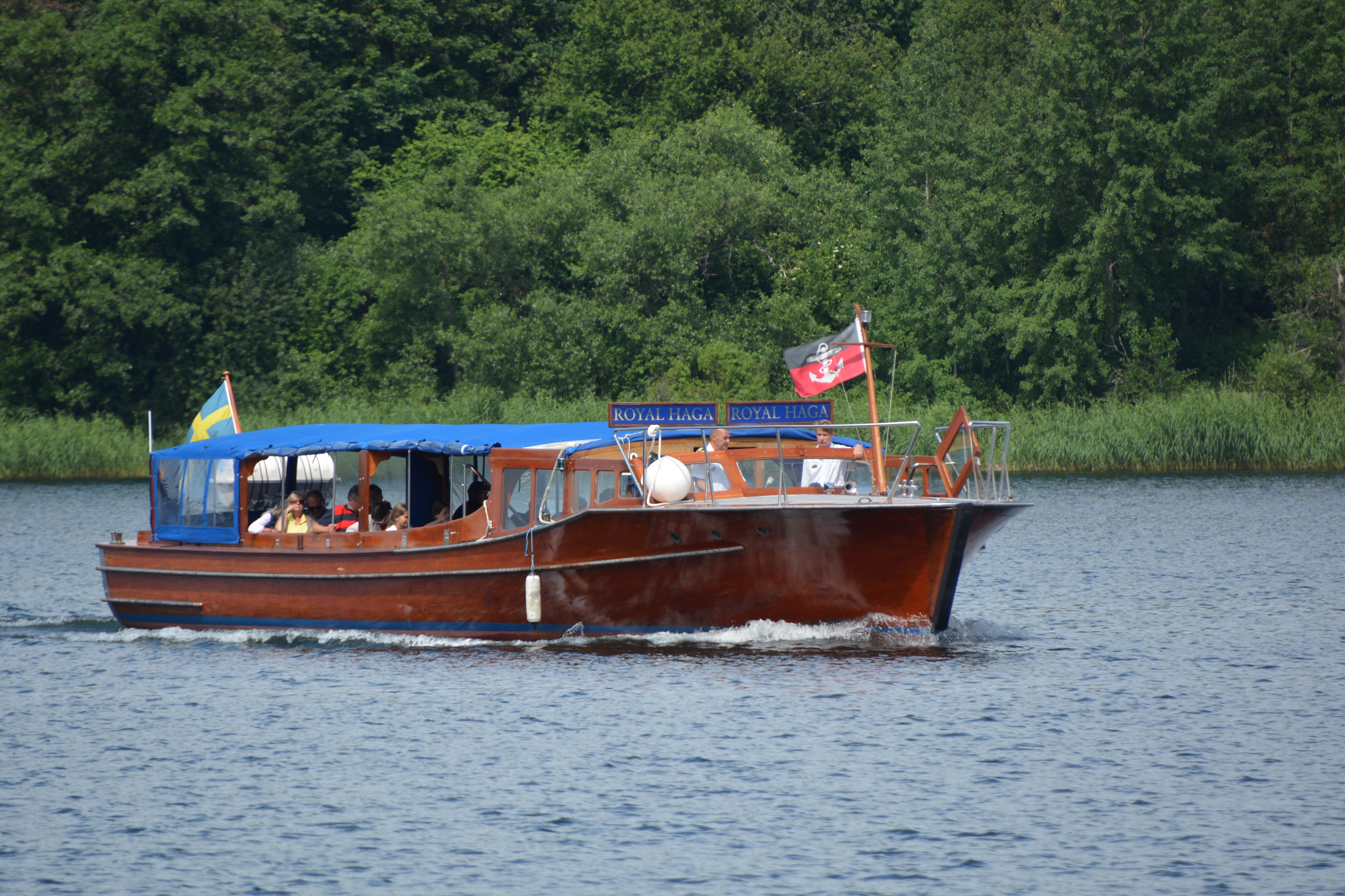 M/S Stegeholm, Swedish heritage passenger ship, Stockholm, at Brunnsviken